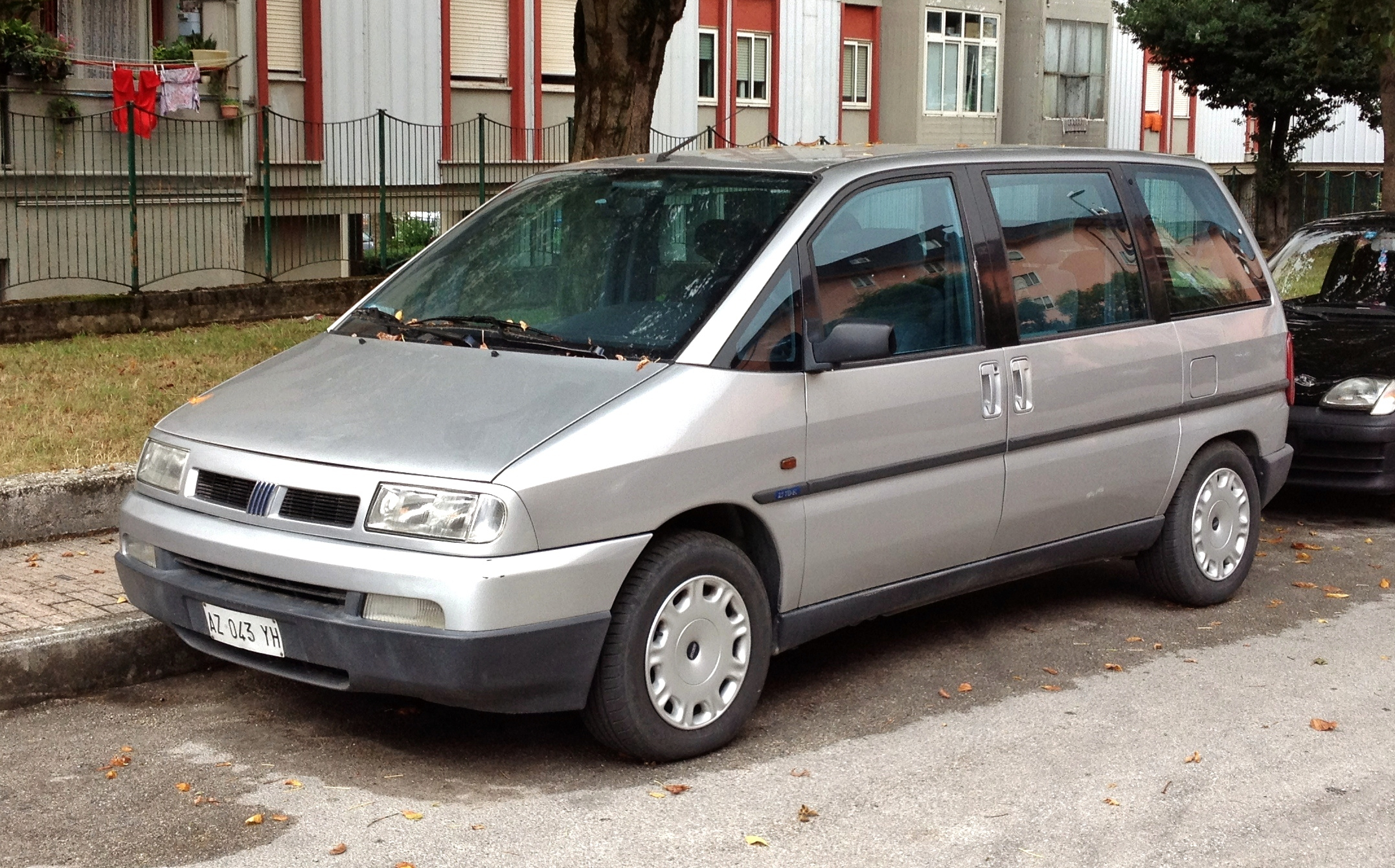 Fiat Ulysse 2.1 TD ES silver